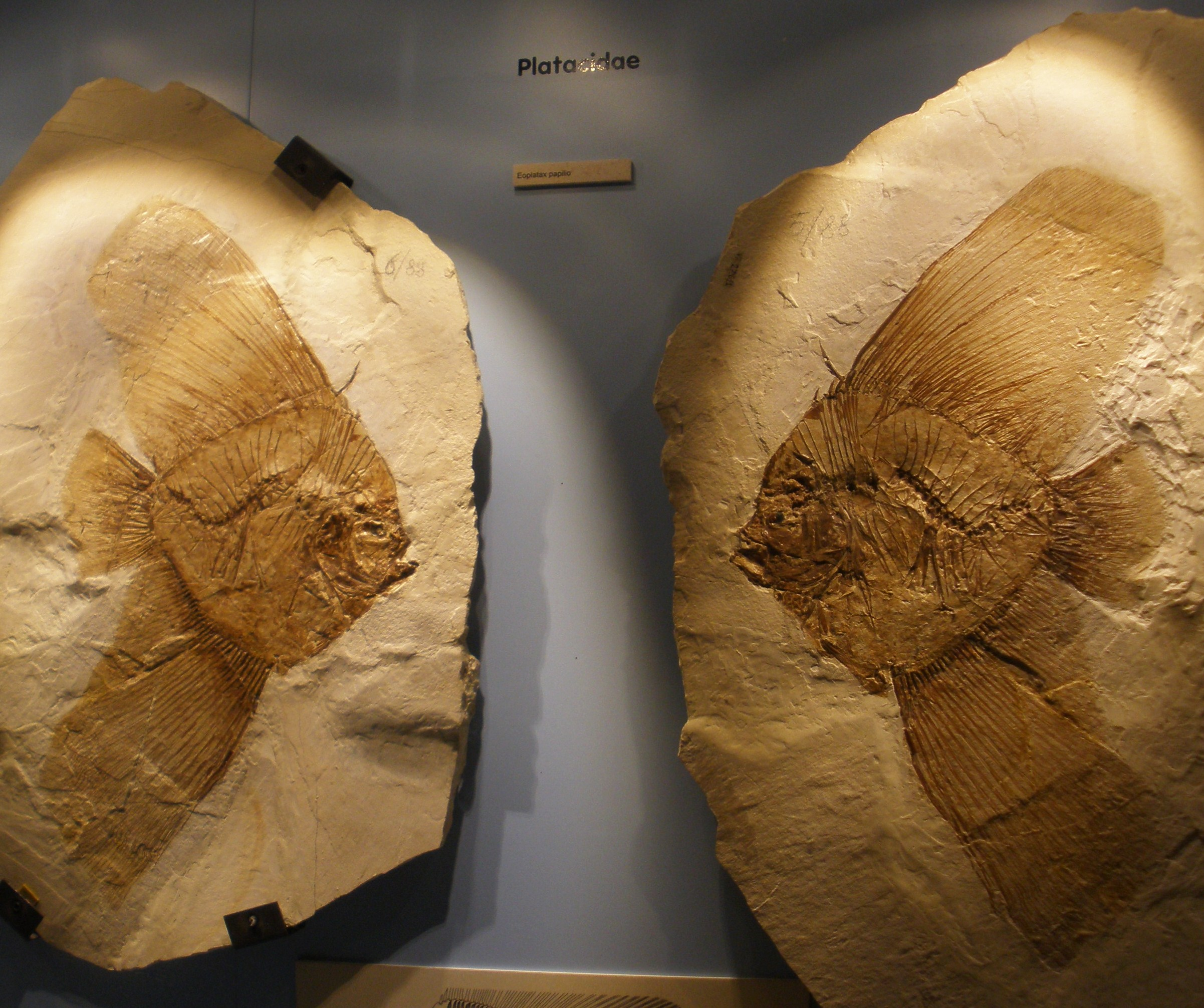 Fossil of Eoplatax papilio, an extinct fish